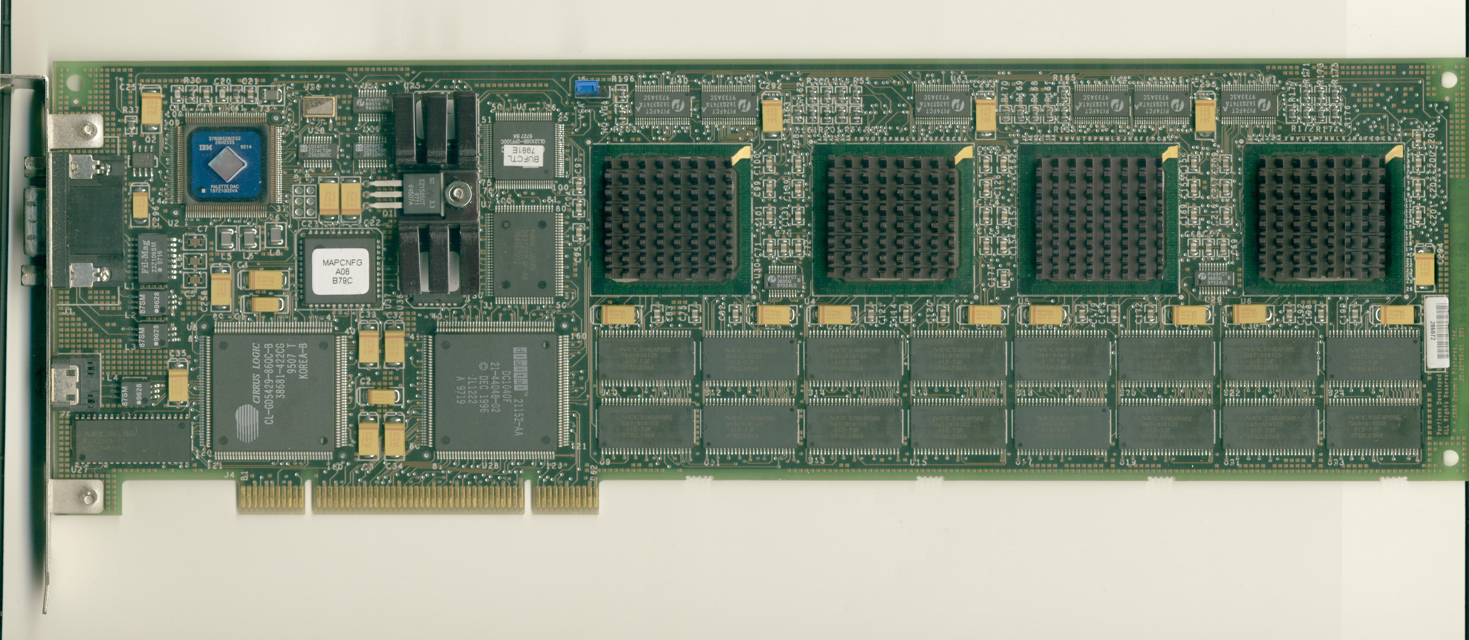 Dynamic Pictures Oxygen402 32MB (3Dlabs Oxygen)